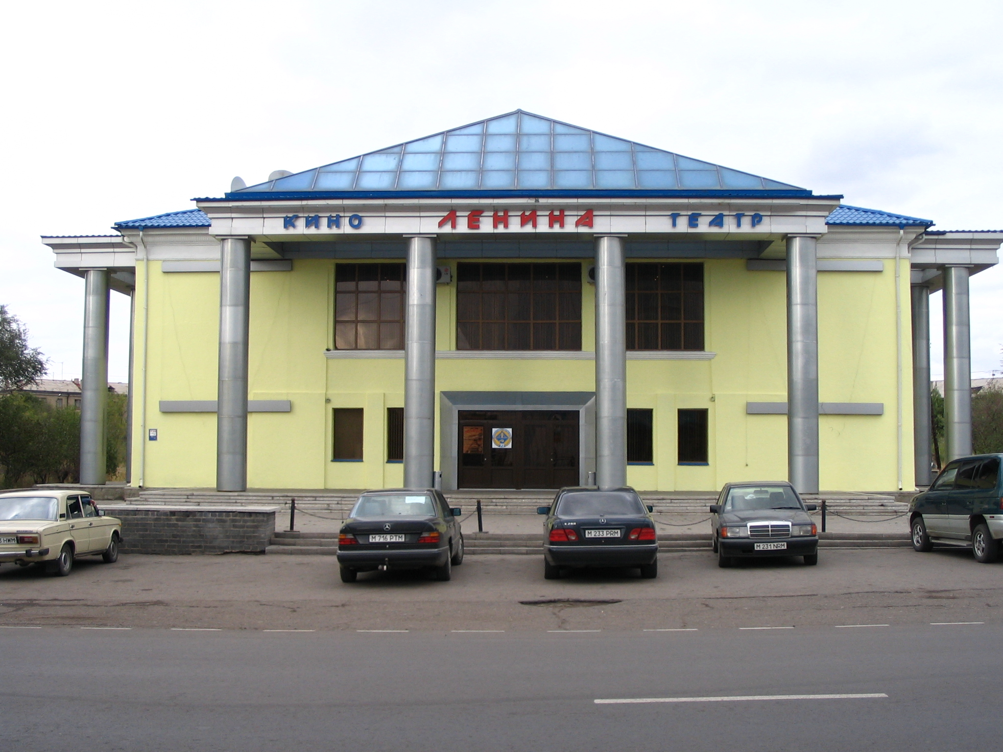 Kino LENIN in Karaganda, Kasachstan